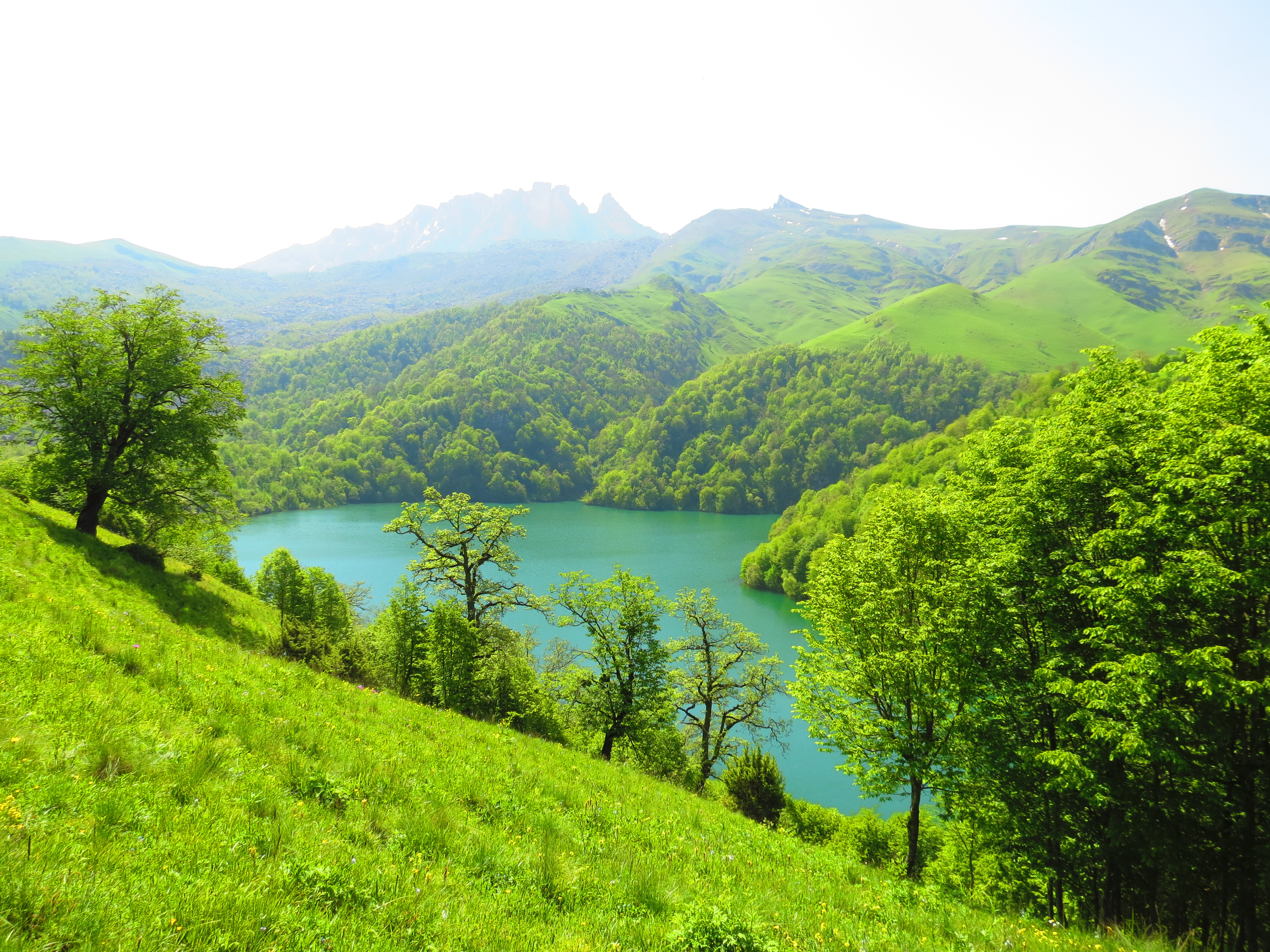 Maralgol Lake and Kapaz Mount. Photo by Uzeyir Mikayilov 8